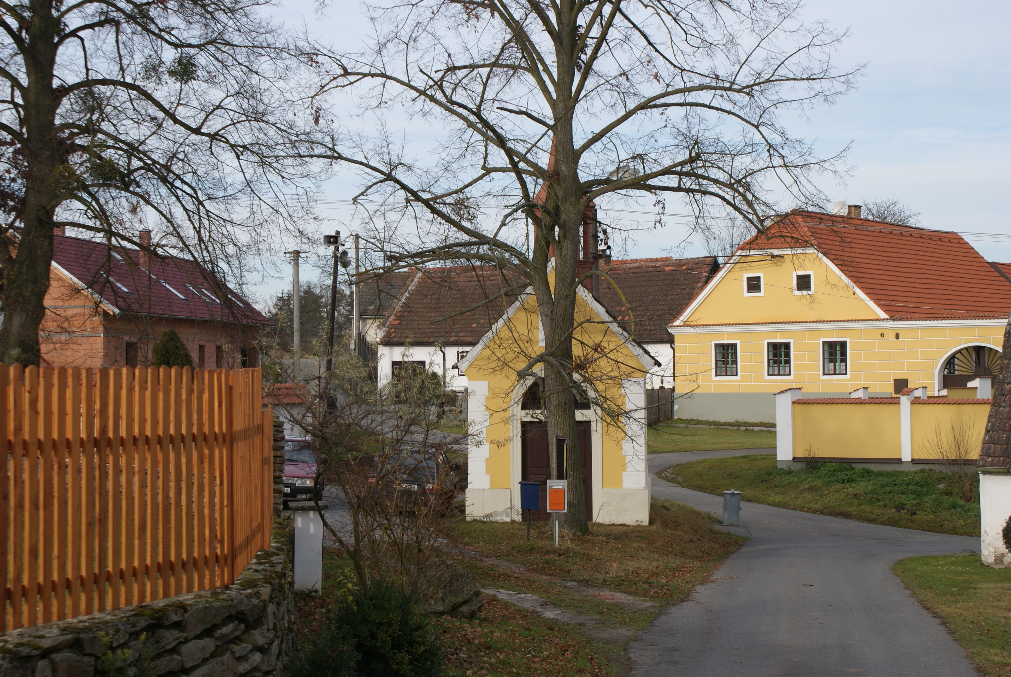 Village common in Vadkovice part of Předotice, Písek District, Southern Bohemia Česky: Náves ve Vadkovicích na Písecku